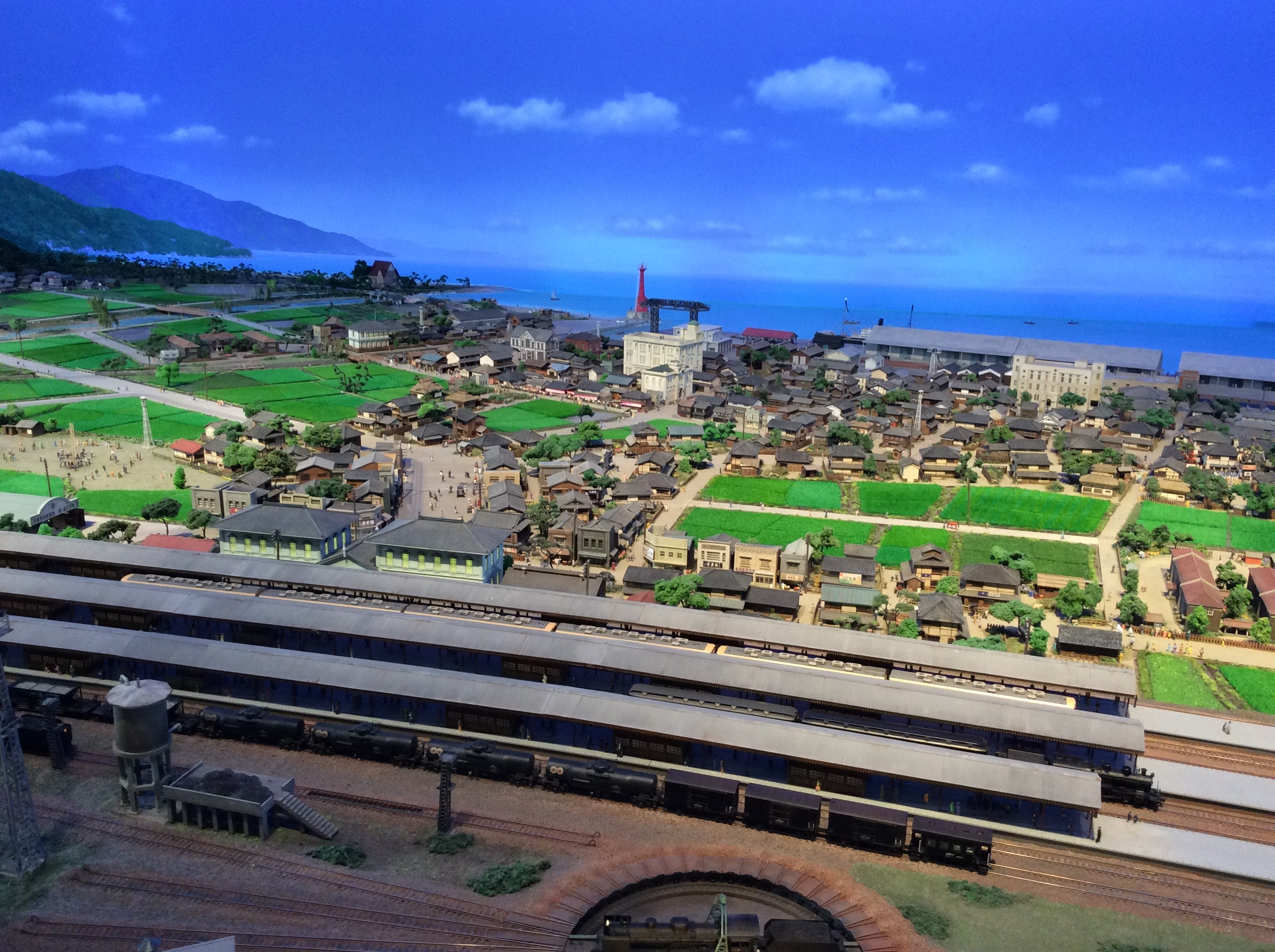 A magnified view of diorama focusing around Tsuruga Station in Tsuruga Red Brick Warehouse